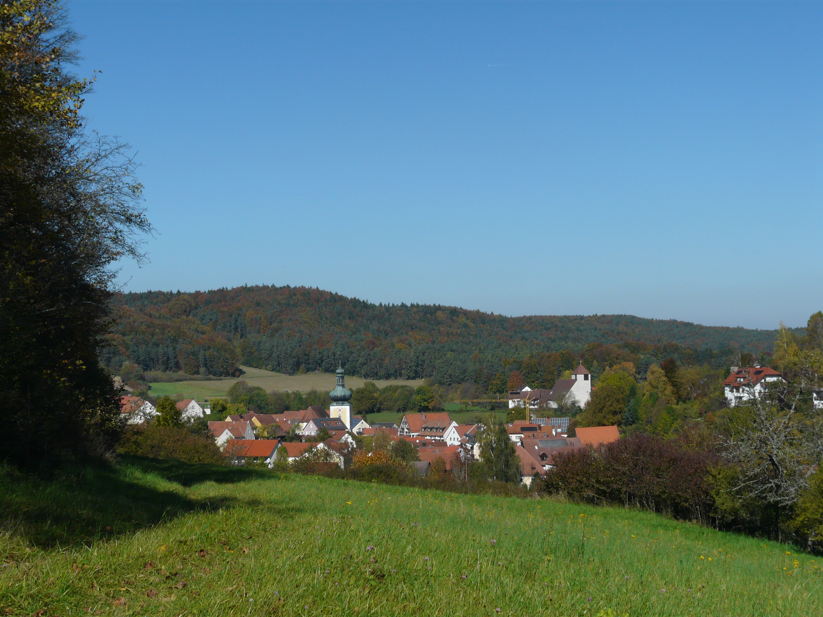 Königstein, a municipality in the Upper Palatinate